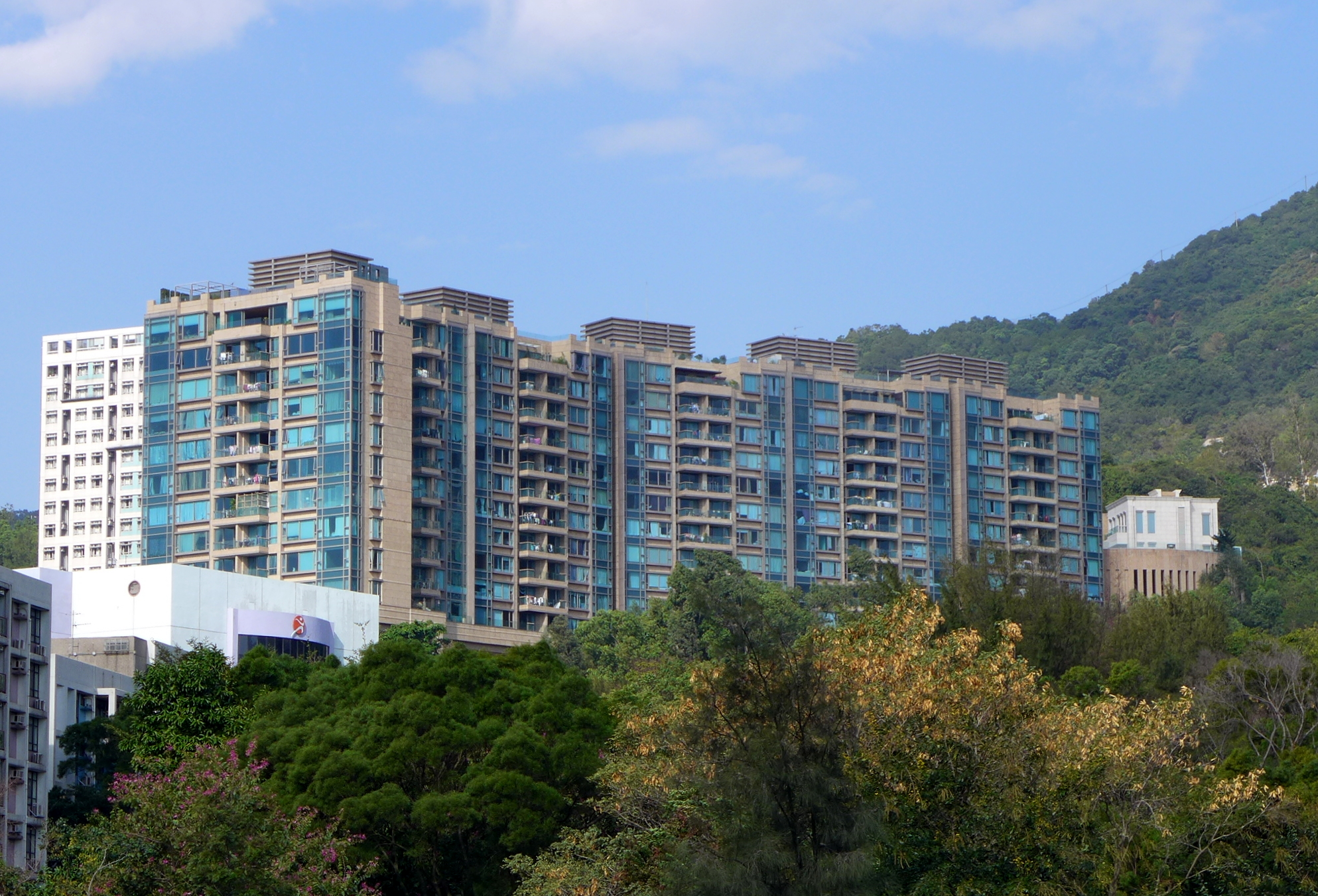 Mount Beacon